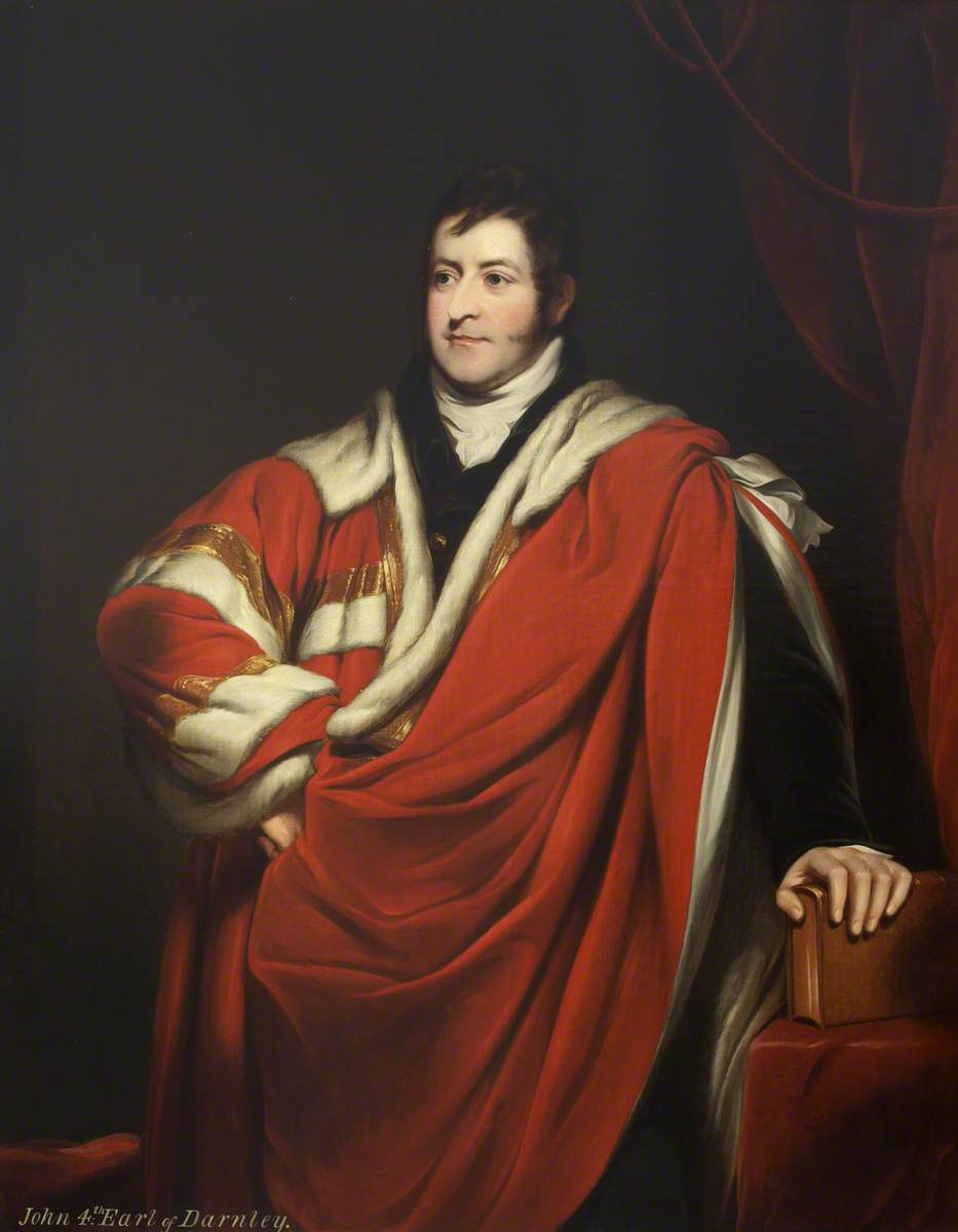 Portrait of John Bligh, 4th Earl of Darnley (1767-1831), standing, at three-quarter-length, wearing peer's robes, inscribed lower left with identity of the sitter. Attributed to Thomas Phillips, RA (Dudley 1770 – London 1845). Created between the sitters succession to the peerage in 1781 and his death in 1831.